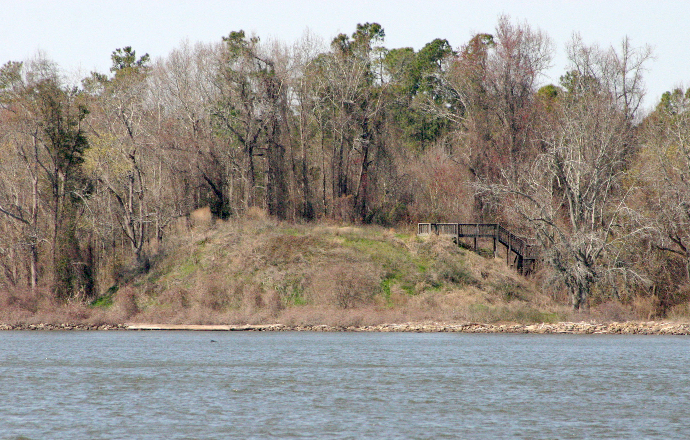 Native American mound next to Lake Marion (impounded Santee River)